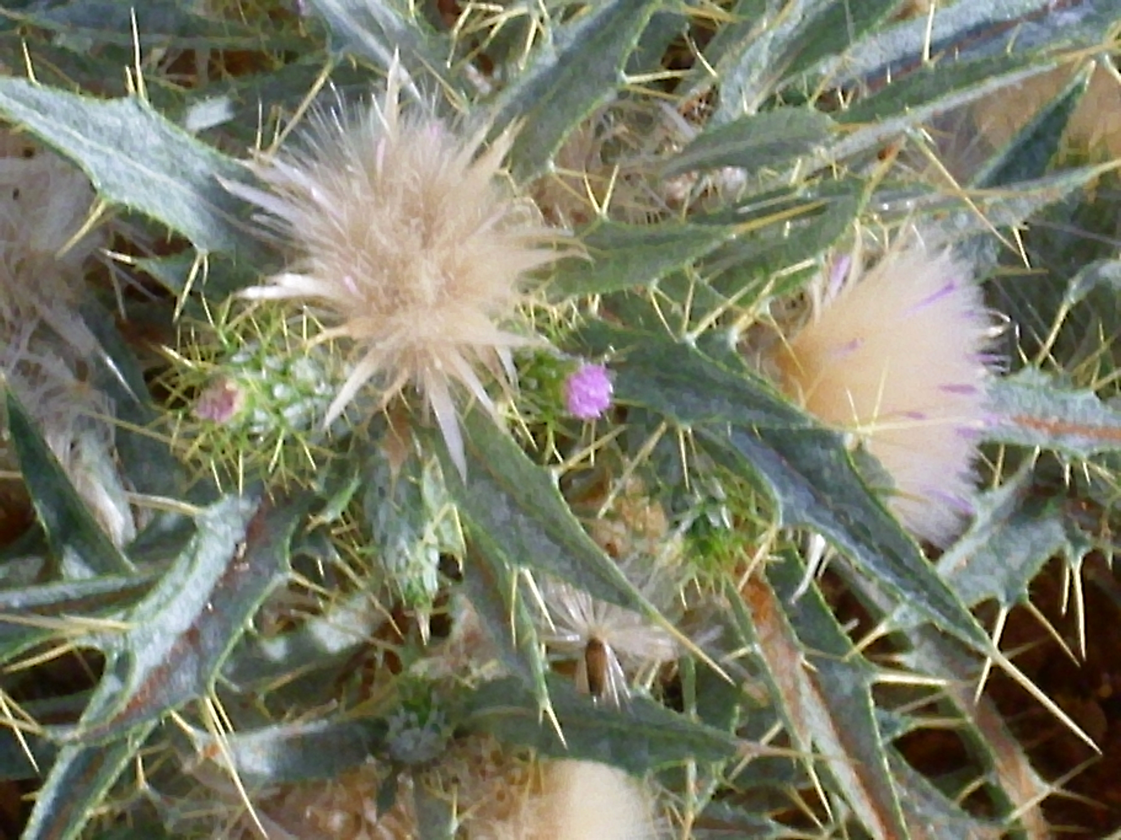 Picnomon acarna flowers and seeds, Dehesa Boyal de Puertollano, Spain